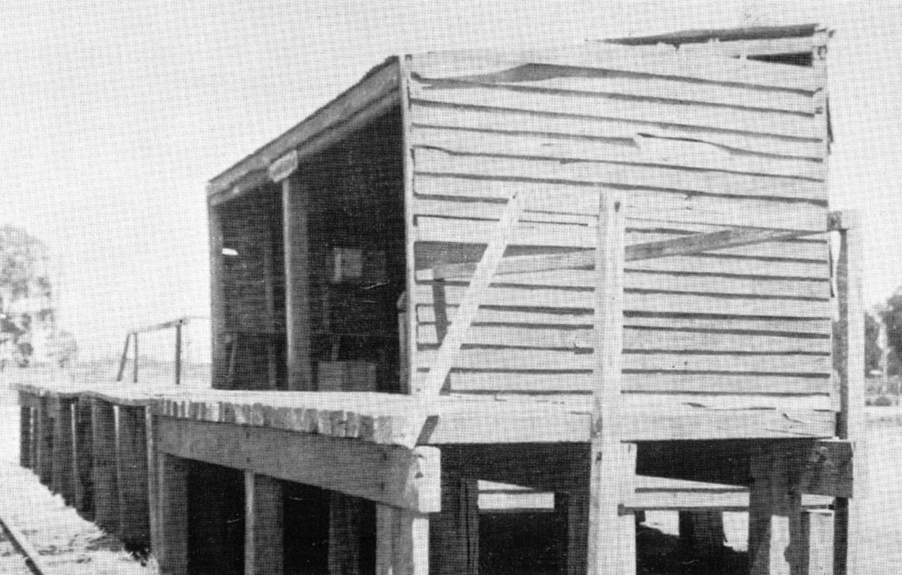 Ganawarra station of the Koondrook Tramway (R. Jennings collection)